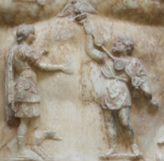 Detail of the Augustus of Prima Porta (Vatican Museums, Rome) showing a Parthian man returning the eagle standards to Augustus after they were lost by Crassus at the Battle of Carrhae in 53 BC.